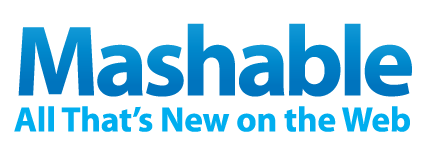 logo as of late 2008